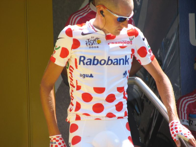 Michael Rasmussen in the polka dot jersey